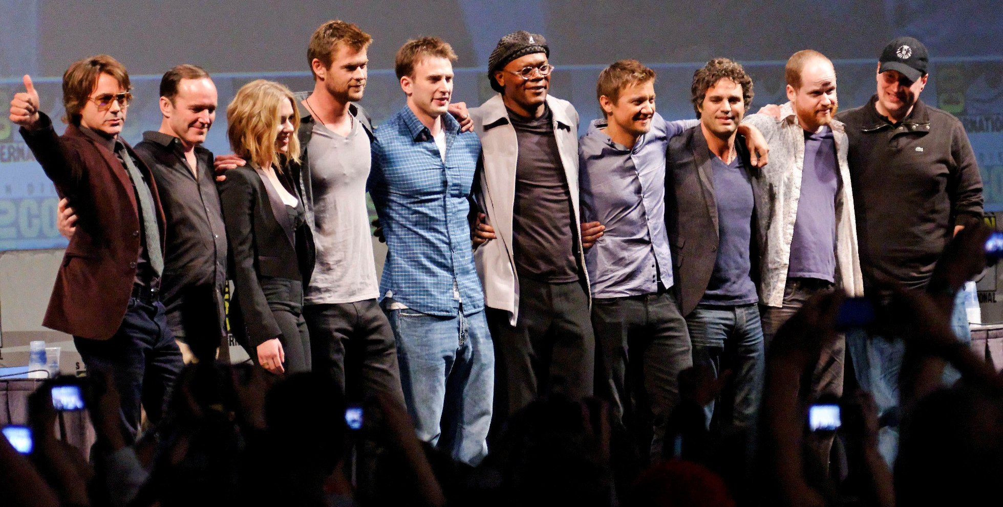 Cast of The Avengers at the 2010 San Diego Comic-Con International featuring Robert Downey Jr., Clark Gregg, Scarlett Johansson, Chris Hemsworth, Chris Evans, Samuel L. Jackson, Jeremy Renner, Mark Ruffalo, Joss Whedon and Kevin Feige.